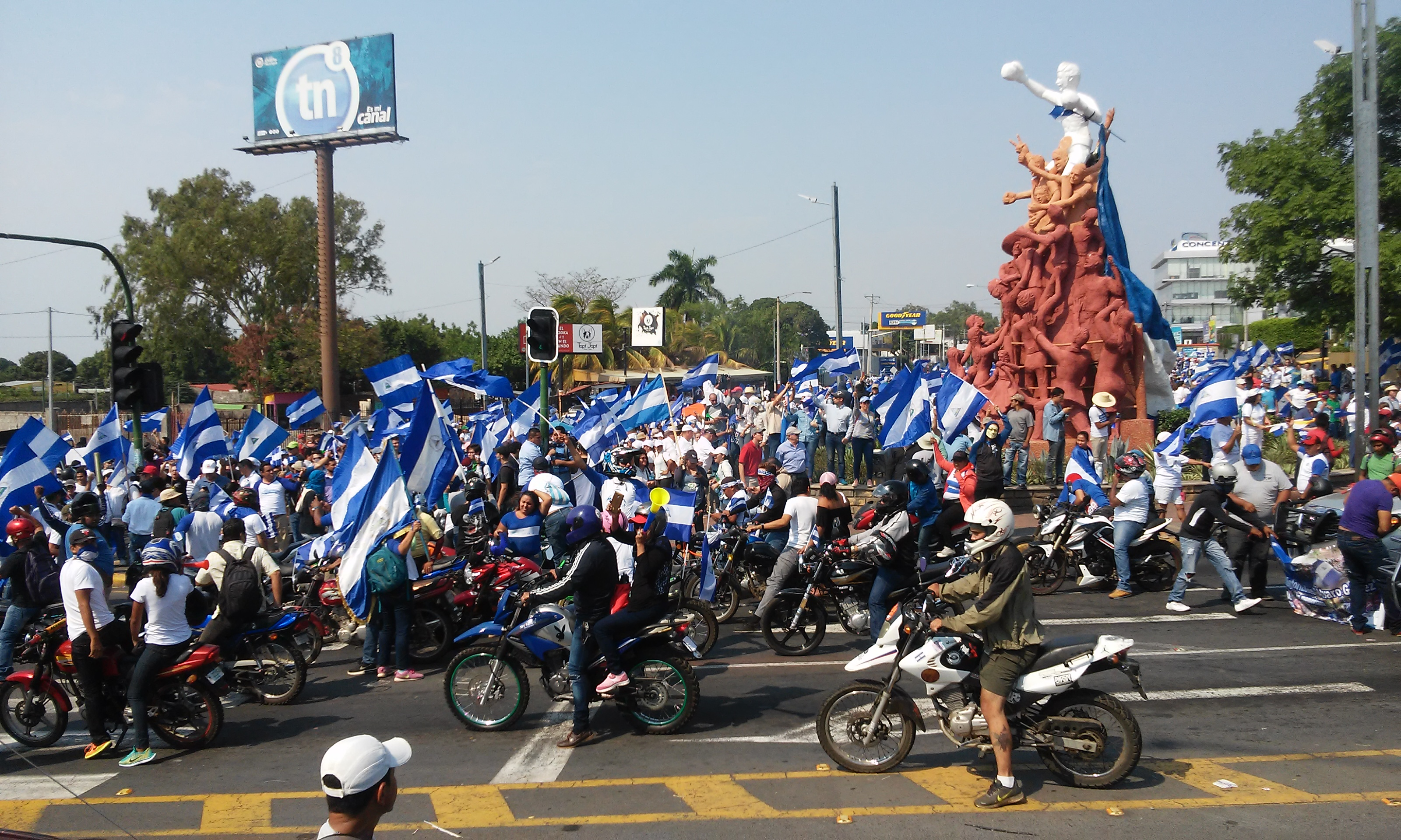 Protesters in an anti-government protest on the road to Masaya, Managua, on May 9, 2018